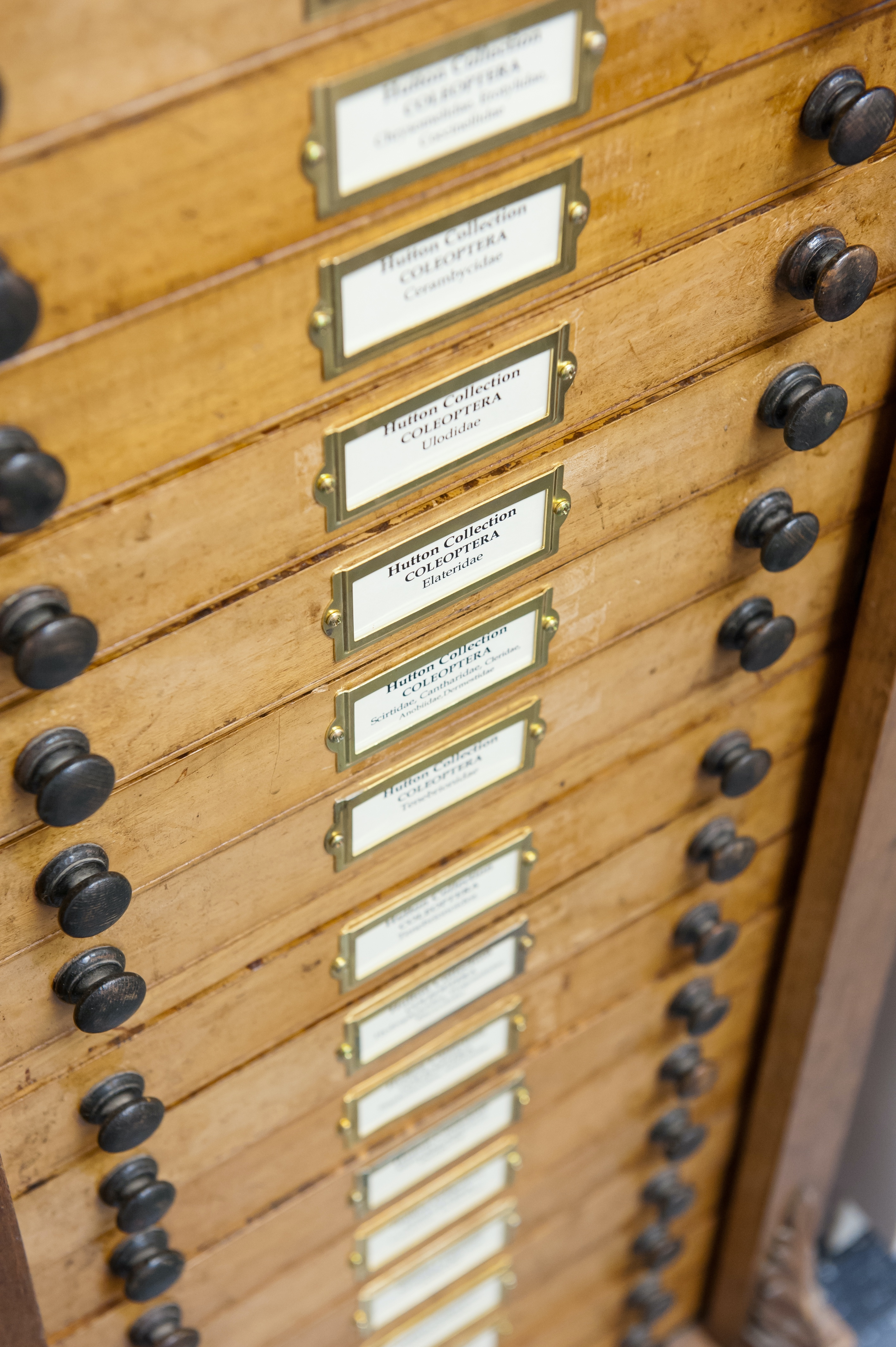 Original drawers containing insect specimens donated to the School of Agriculture of Canterbury University College (now the Lincoln University Entomology Research Collection) by Frederick W. Hutton. In 1880–1882 Hutton was Professor of Biology at Canterbury College (and later director of the Canterbury Museum), and taught natural science at Lincoln with half his salary paid by the school.